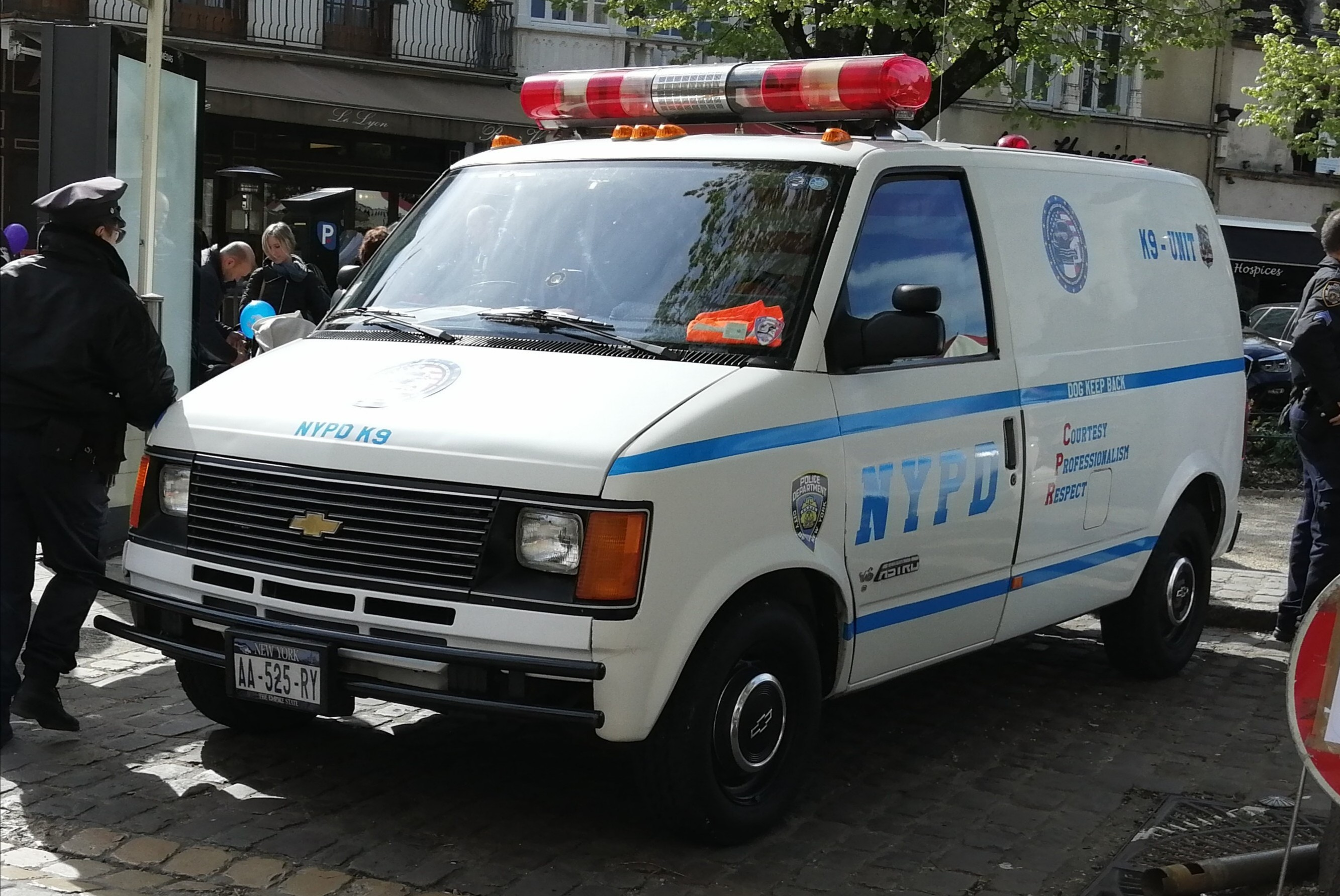 1986 Chevrolet Astro NYPD (V6 4.3 165 hp) at Beaune